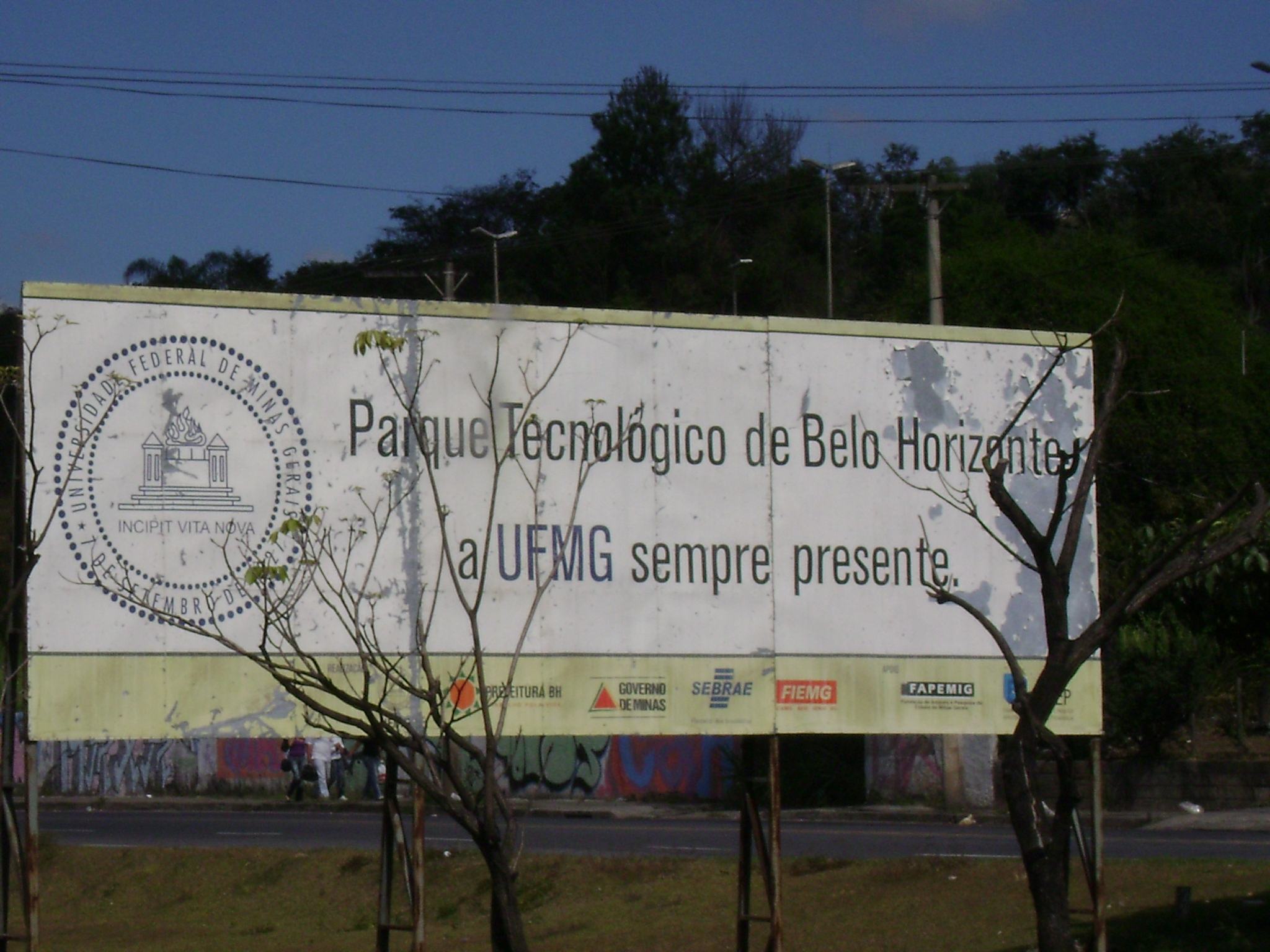 Placa informativa sobre o BHTEC, em Belo Horizonte.